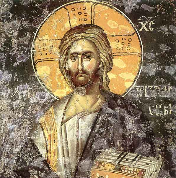 The famous fresco of Christ - the Patron of Prizren, Bogorodica Ljeviška (Our Lady of Ljevish), Kosovo and Metohia, Serbia